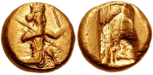 PERSIA. Achaemenid Empire. Time of Darius I-Xerxes I. Circa 485-420 BC. AV Daric (14mm, 8.37 gm). Persian king or hero in kneeling-running stance right, holding spear and bow / Incuse punch. Carradice Type IIIb A/B (pl. XIII, 27); BMC Arabia pl. XXIV, 26. Choice EF.